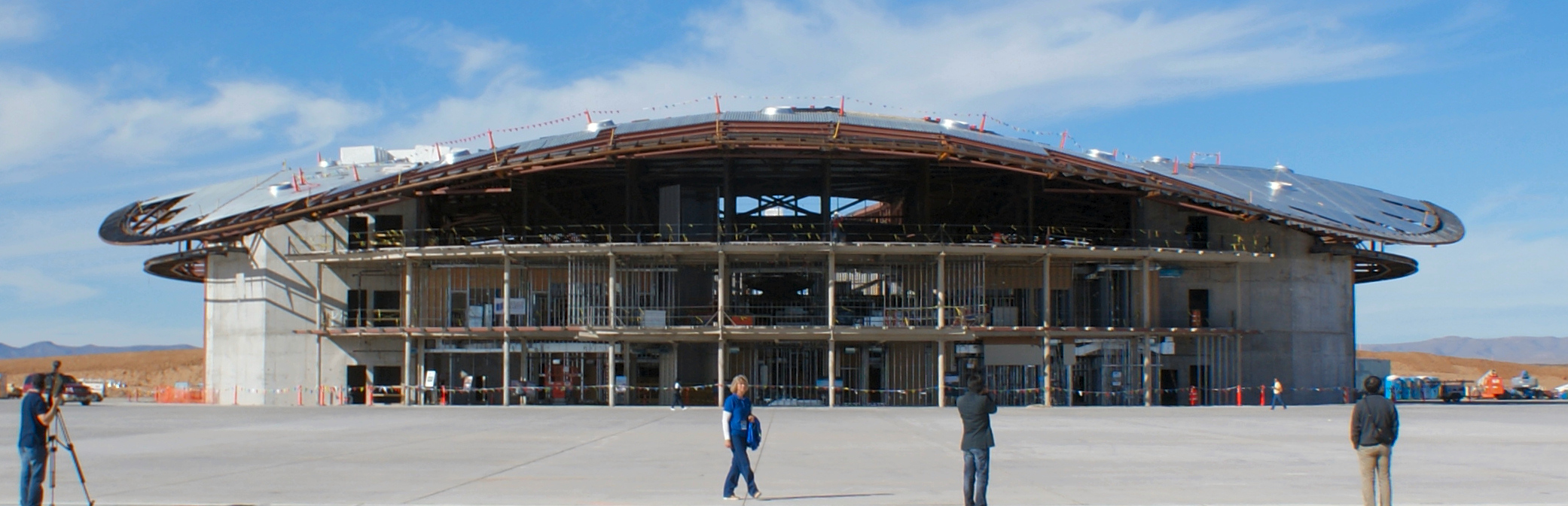 The Terminal Hangar Facility is seen under construction at Spaceport America.